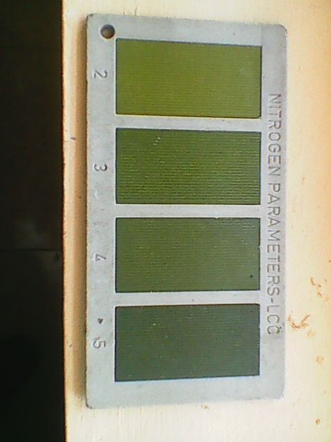 chlorophyll leaf chard for eco friendly N Management